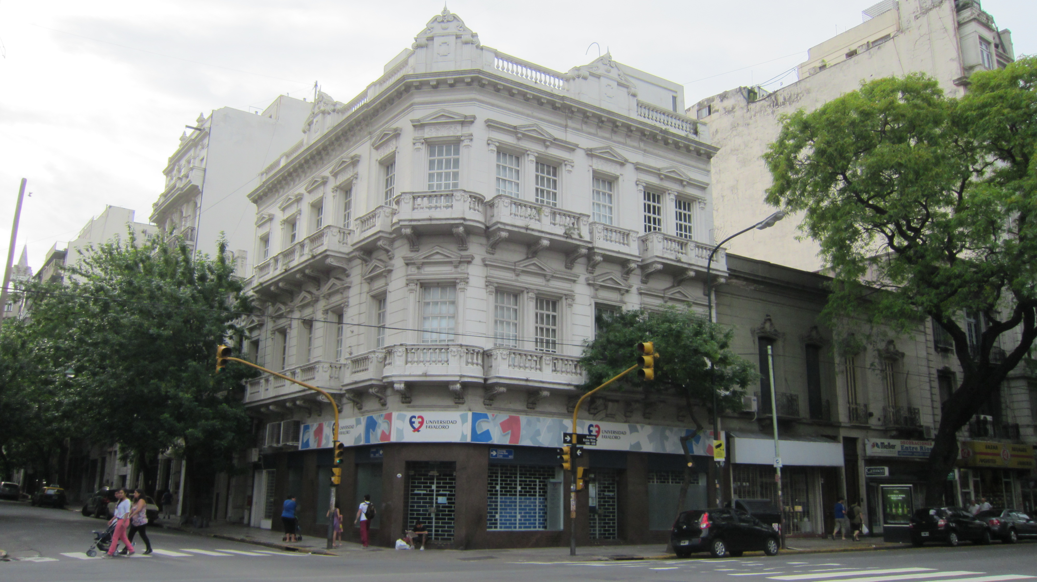 Argentina - Buenos Aires - Photo of Entre Rios Building (Entre Rios 495 esq Venezuela.), Favaloro University, part of the Favaloro Foundation. GPS S34.61491 W58.39174